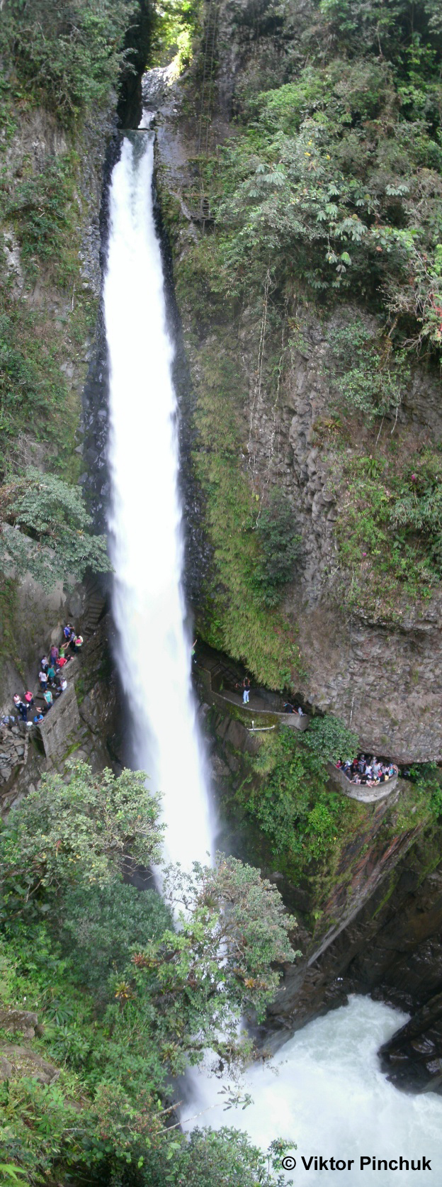 Photo from the book "200 days in Latin America" © 2017 Viktor Pinchuk, page 75, ISBN 978-5-9909912-0-0, uploaded by author.